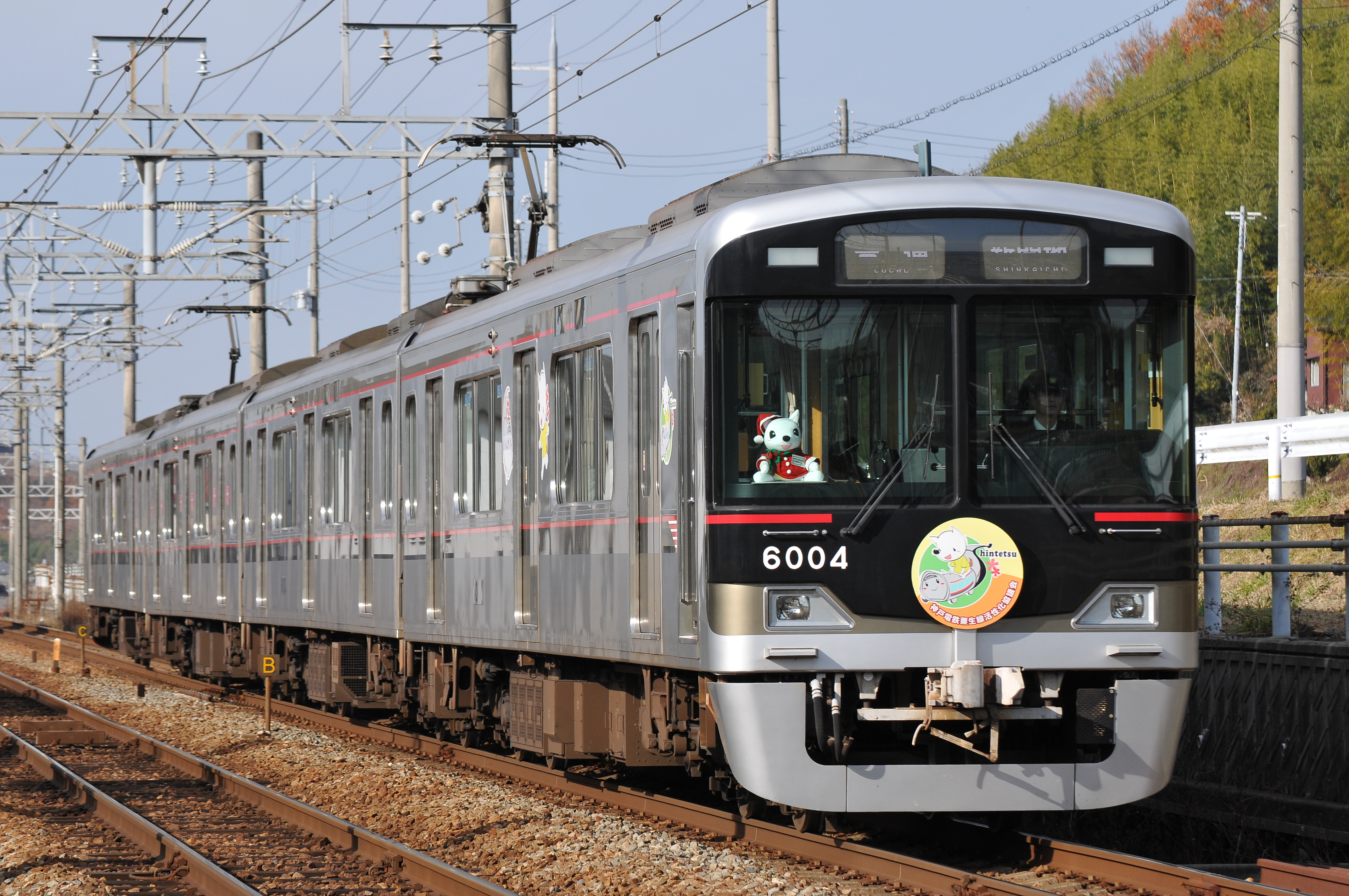 Shintetsu 6000 series EMU set 6003